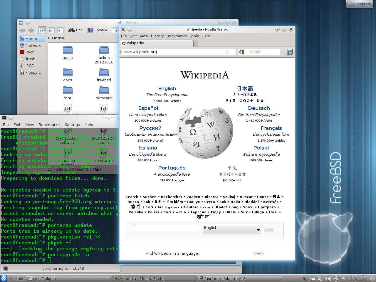 Screenshot of FreeBSD 9.1-RC3, with KDE SC 4.8.4, the Dolphin file manager, the Konsole terminal emulator, and the Mozilla Firefox (16.0.1) World-Wide Web browser also pictured.